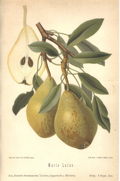 Pyrus communis 'Marie Louise'